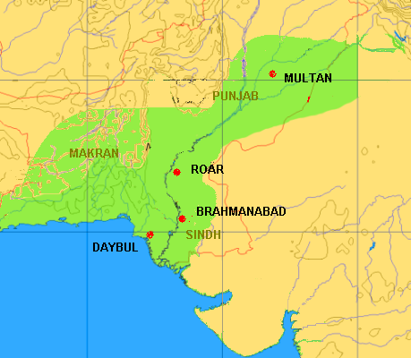 Map of the maximum extents of Muhammad ibn Qasim's expansion of Umayyad rule into northwestern India, c. 711 CE. Map of Early Muslim Conquests into Pakistan, University of Columbia.